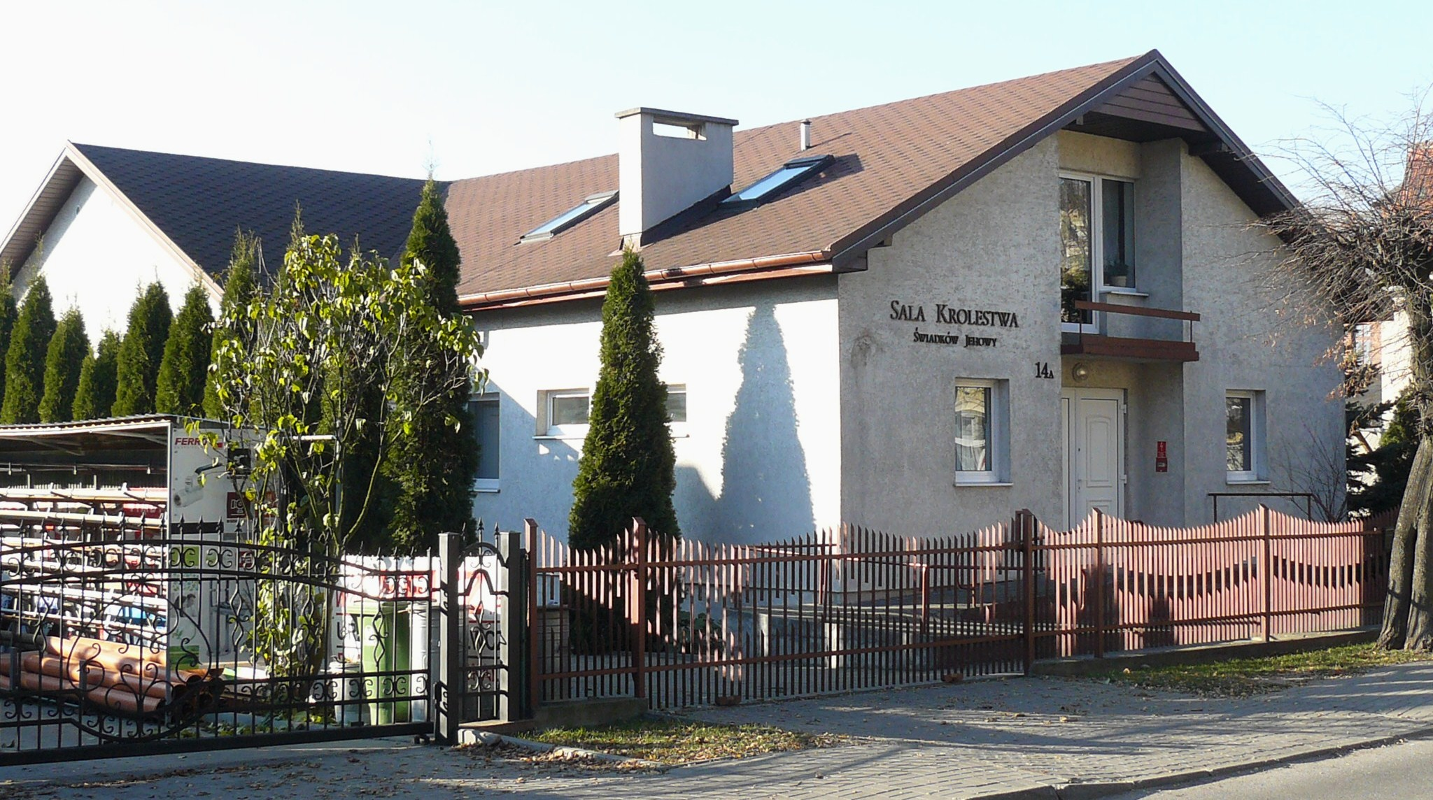 Kingdom Hall of Jehovah's Witnesses. Jabłonowo Pomorskie.